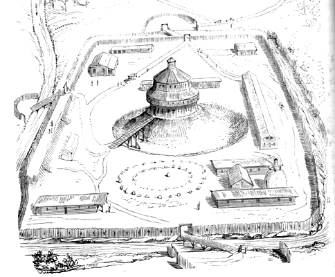 Violet le duc, drawing of a Motte